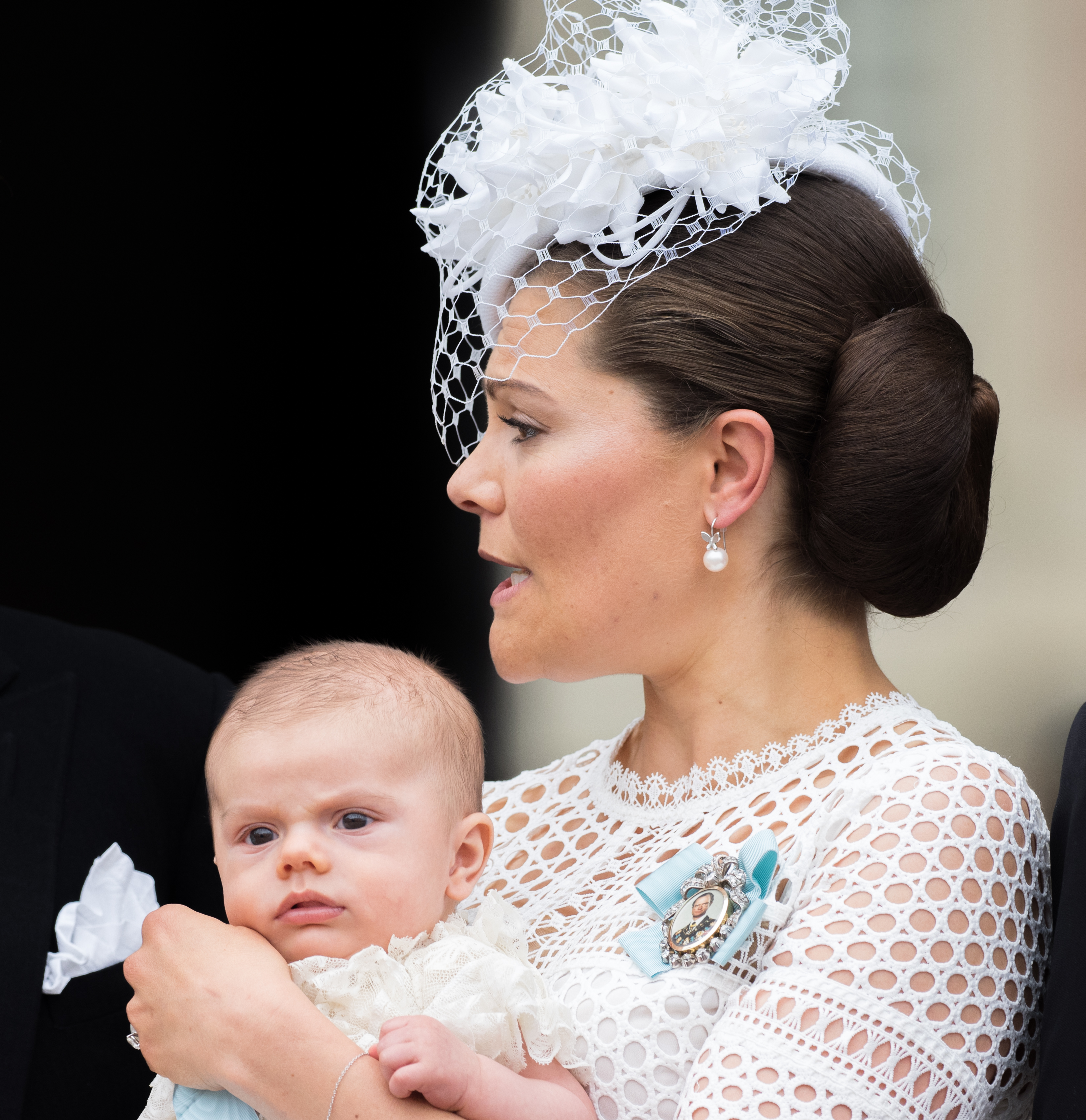 Crown Princess Victoria of Sweden with children in 2016